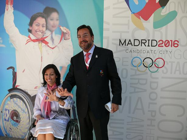 Paralympic swimmer Teresa Perales with Miguel Carballeda; the president of the Spanish Paralympic Committee told IOC inspectors Madrid would stage the "greatest Paralympic Games ever." (ATR / Panasonic:Lumix)